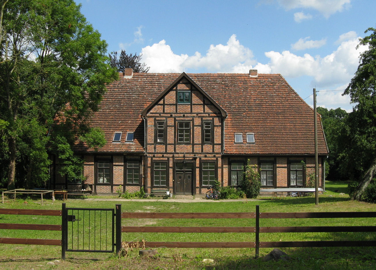 Former rectory in Kirch Kogel, disctrict Güstrow, Mecklenburg-Vorpommern, Germany